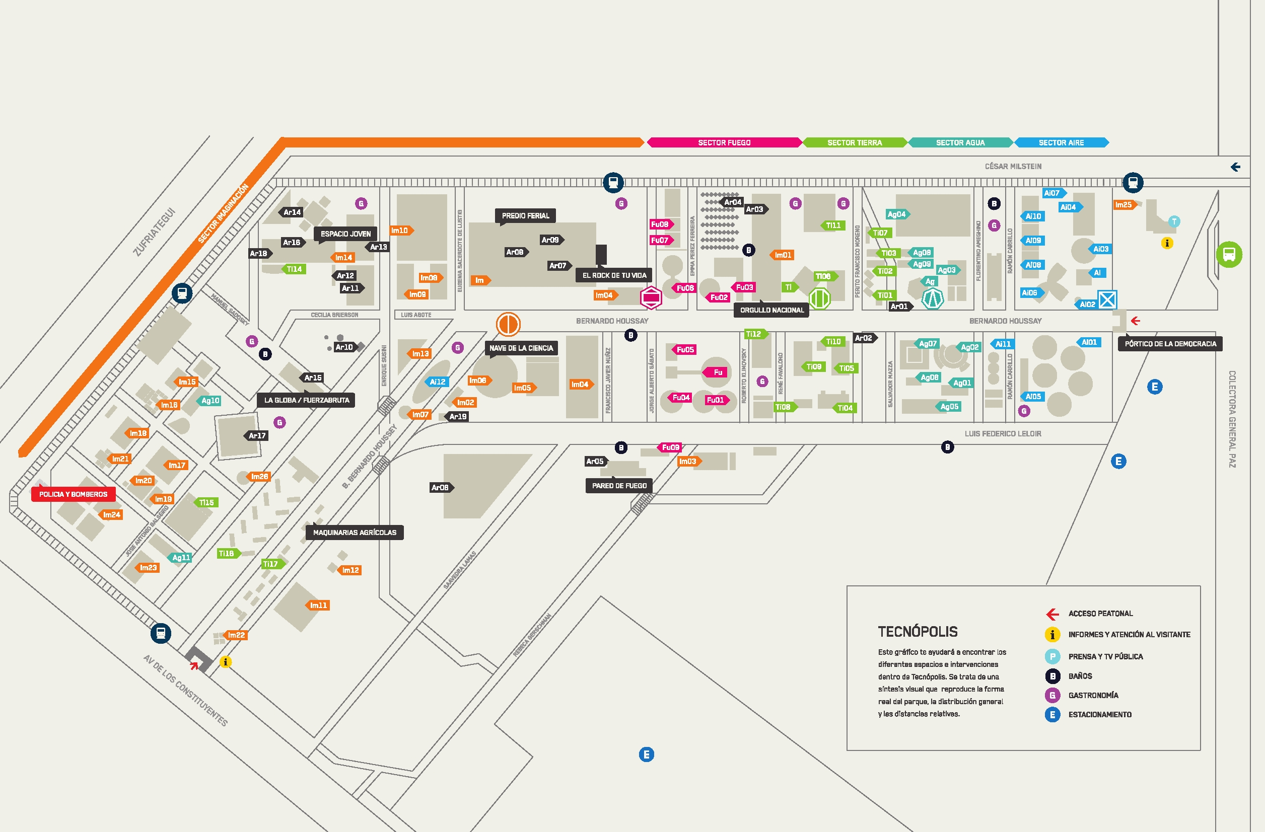 Tecnopolis Map